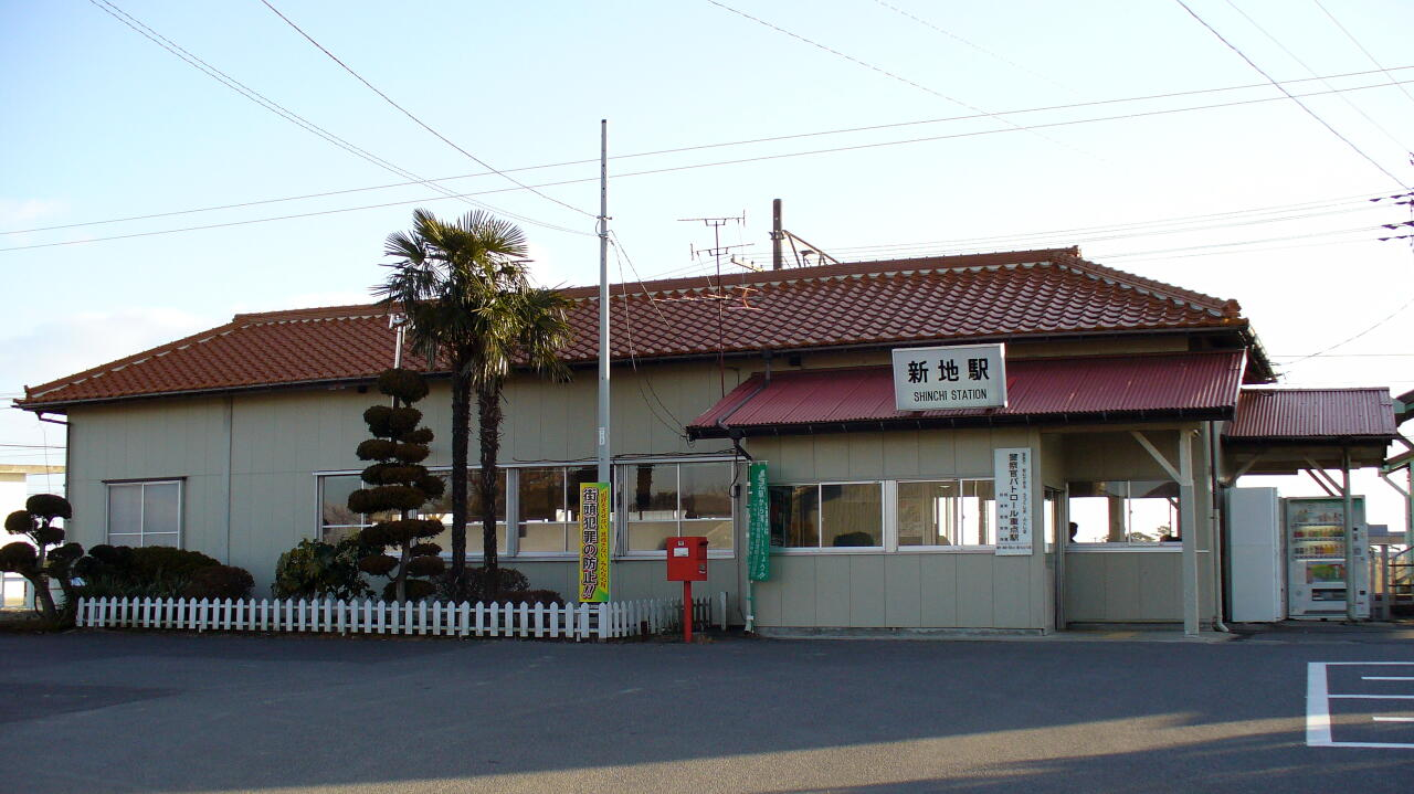 Shinchi Station in Fukushima Prefecture, Japan, before it was destroyed by a tsunami in March 2011